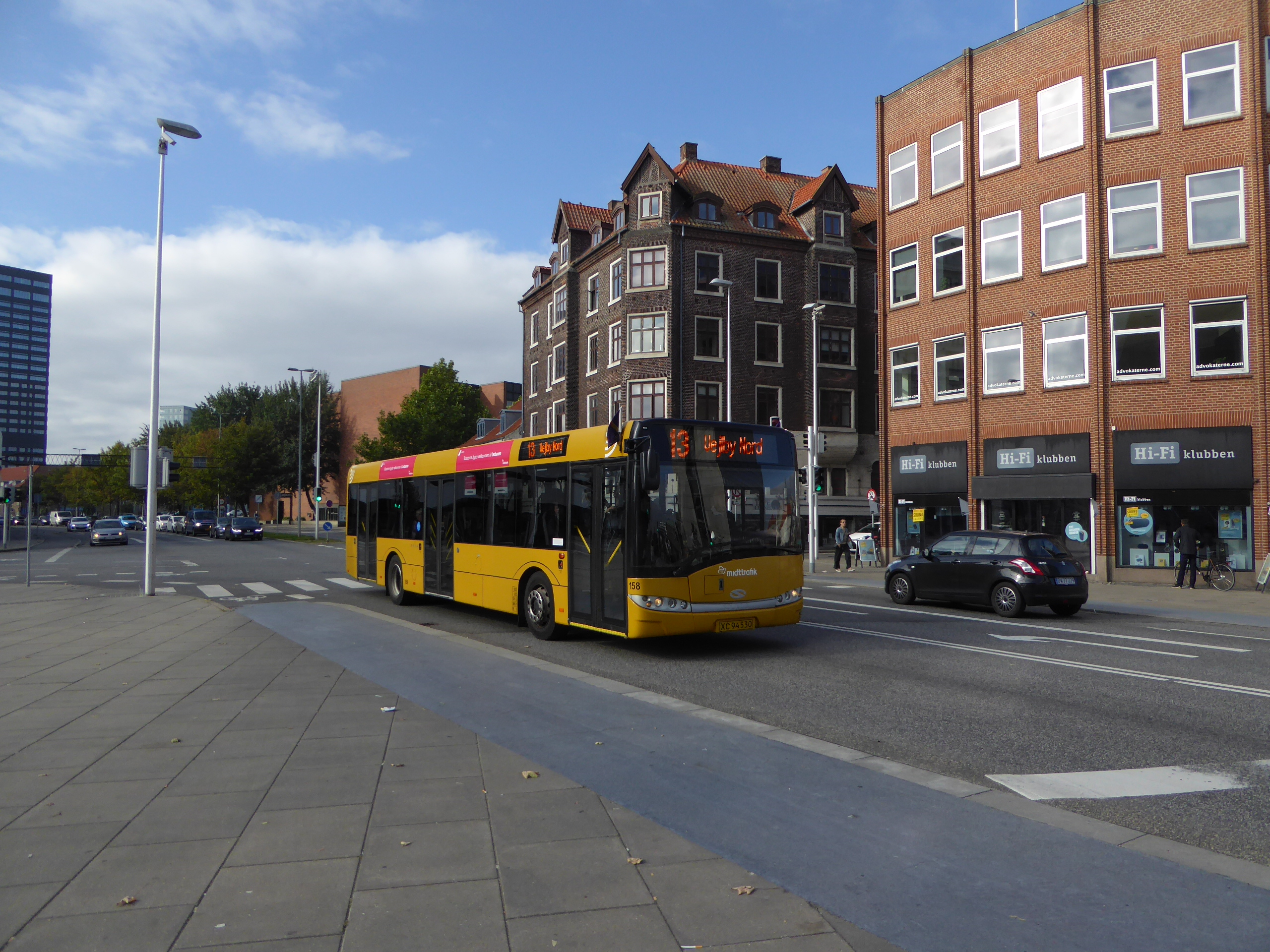 Midttrafik bus line 13 at Europaplads in Aarhus in Denmark.